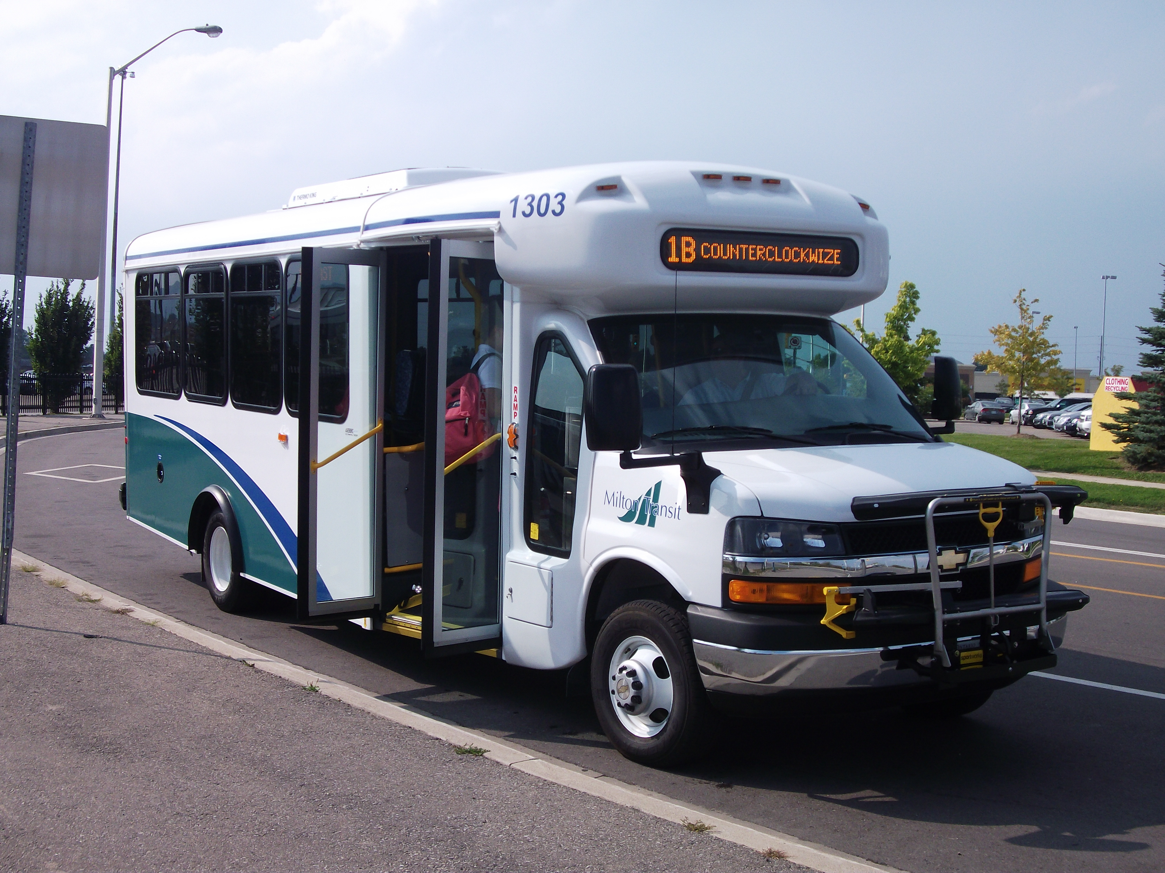 Milton Transit 1303 at the GO station on route 1B